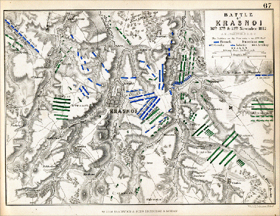 Battle of Krasnoi - A 19th century rendering of the terrain and troop positions at Krasnoi as they evolved between Nov. 16th to Nov. 18th. Note the distance between Kutusov's main position at Shilova (lower-right hand section of the map) and Tormasov's ultimate flanking position at Dobroe, west of Krasnoi. It took two hours for Tormasov to march from Shilova to Dobroe. Kutusov delayed Tormasov's march as long as possible. A plan of the Battle of Krasnoi fought during Napoleon's campaign in Russia in 1812